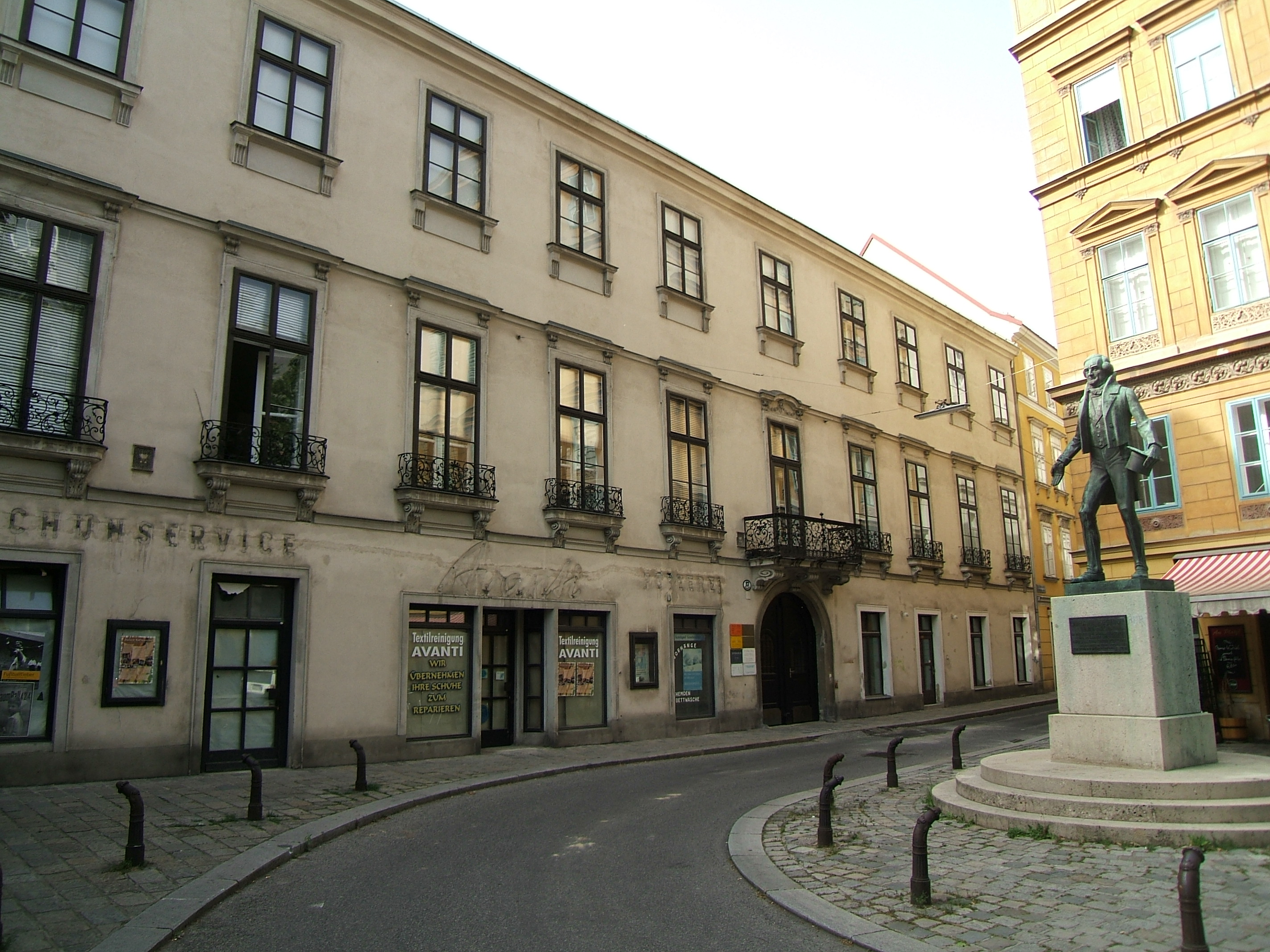 Palais Bellegarde in Vienna 2nd district Praterstraße 17